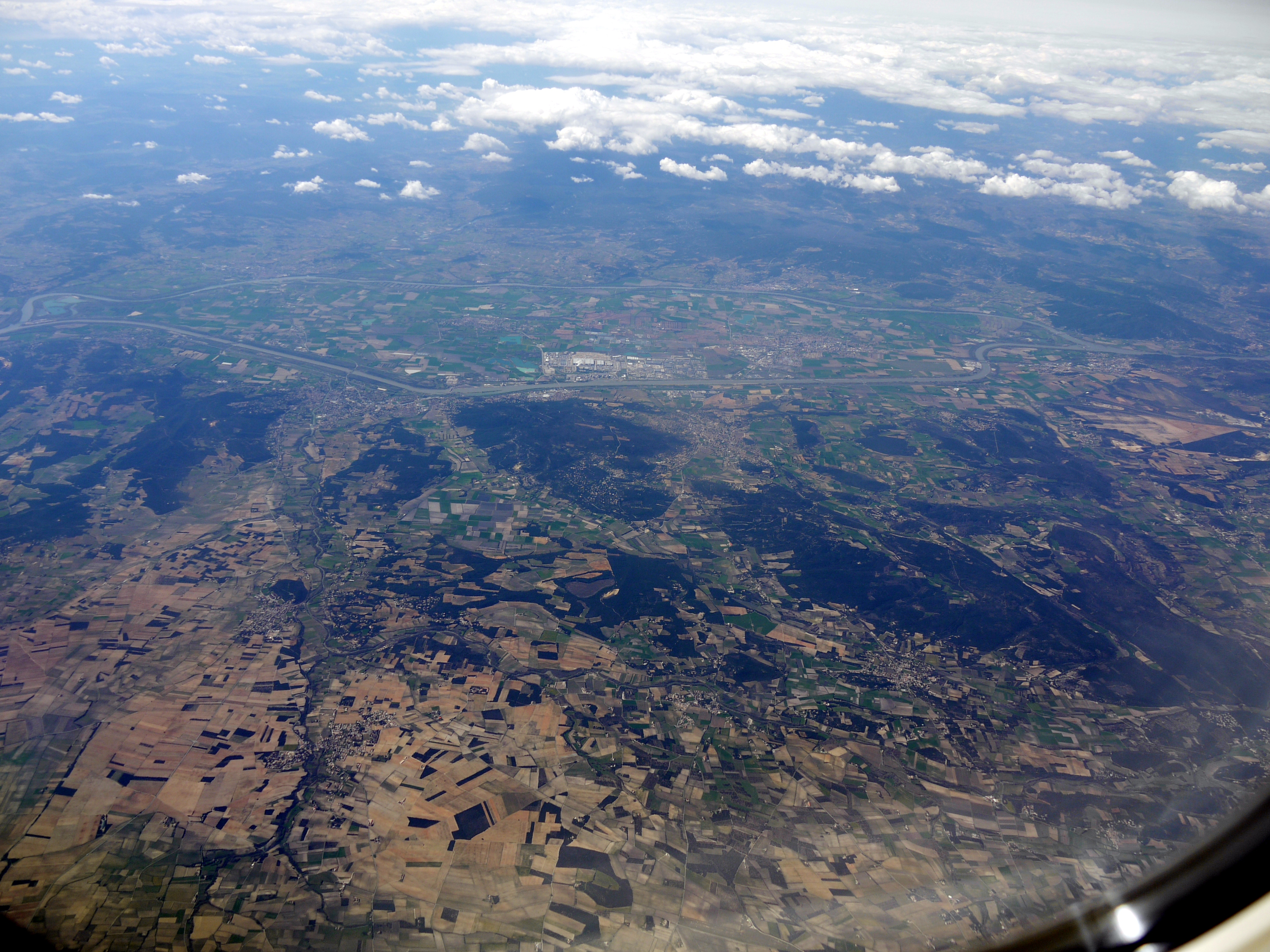 Tricastin, La Garde Adhémar, Saint-Paul-Trois-Chateaux, photograph taken from the sky, on the fly line between Marseille and Stockholm.